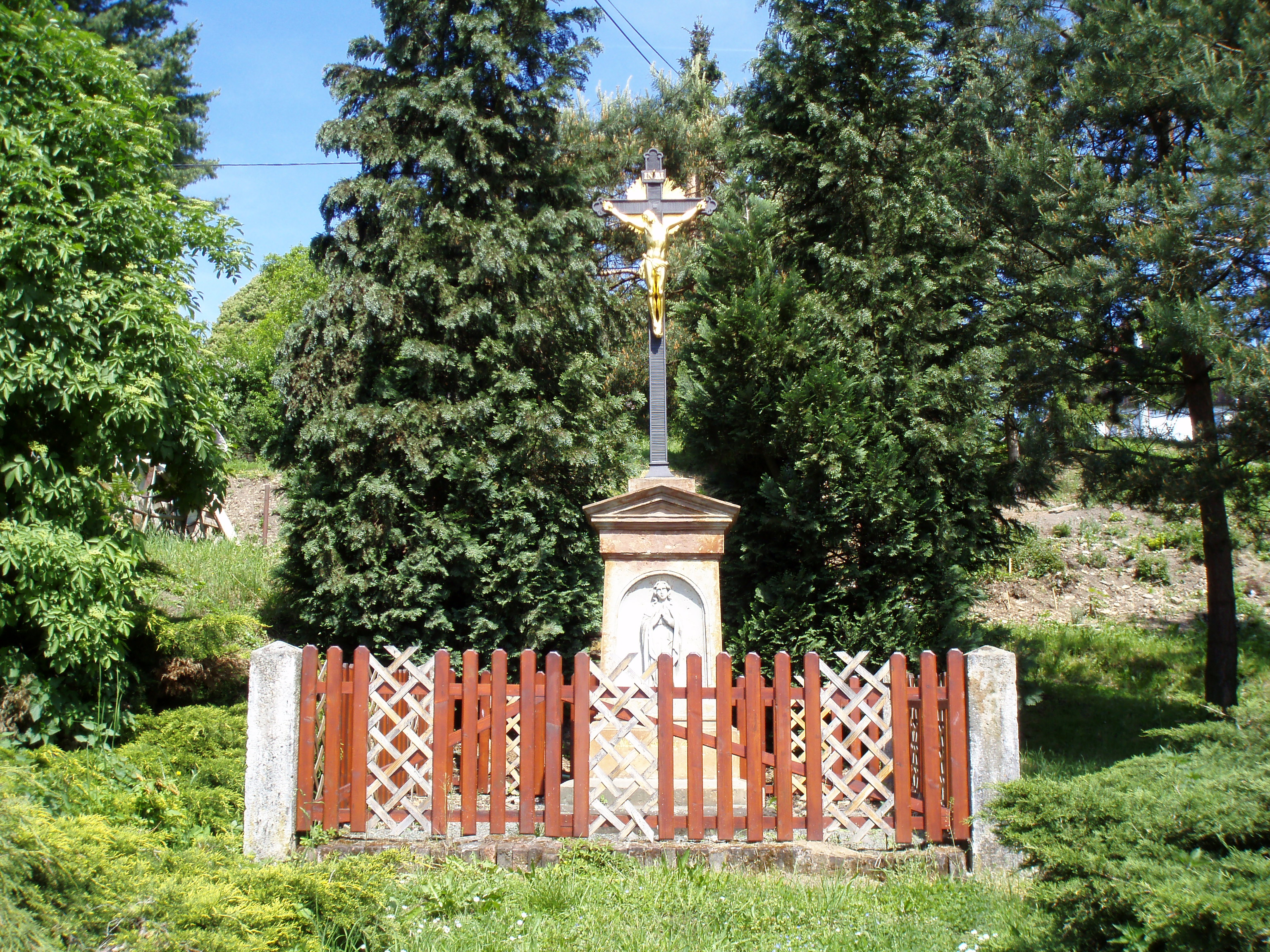 Sandstone cross in Lhota pod Hořičkami (District of Náchod, Czech Republic)